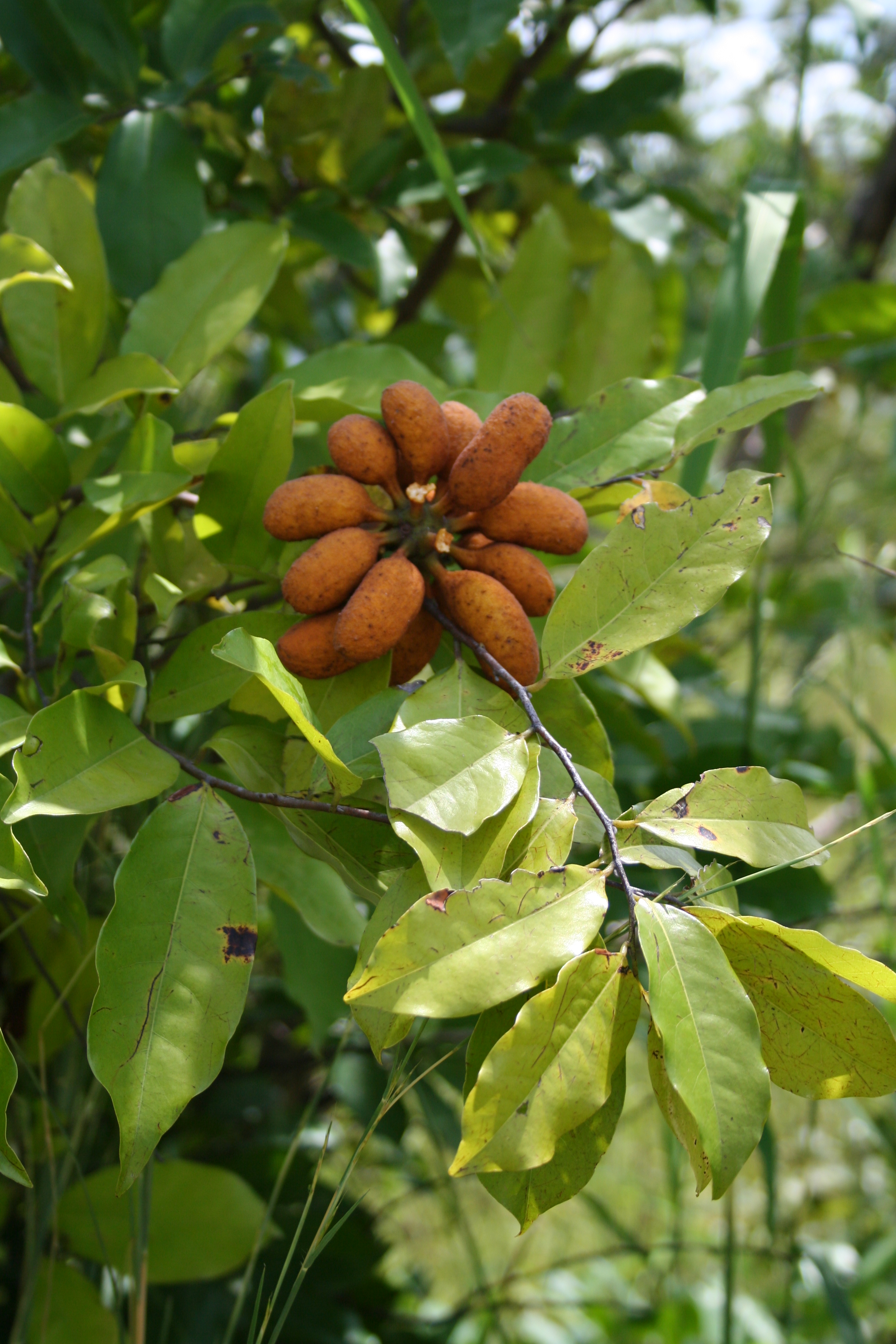 fruits of Uvaria chamae, Tenakourou, SW Burkina Faso